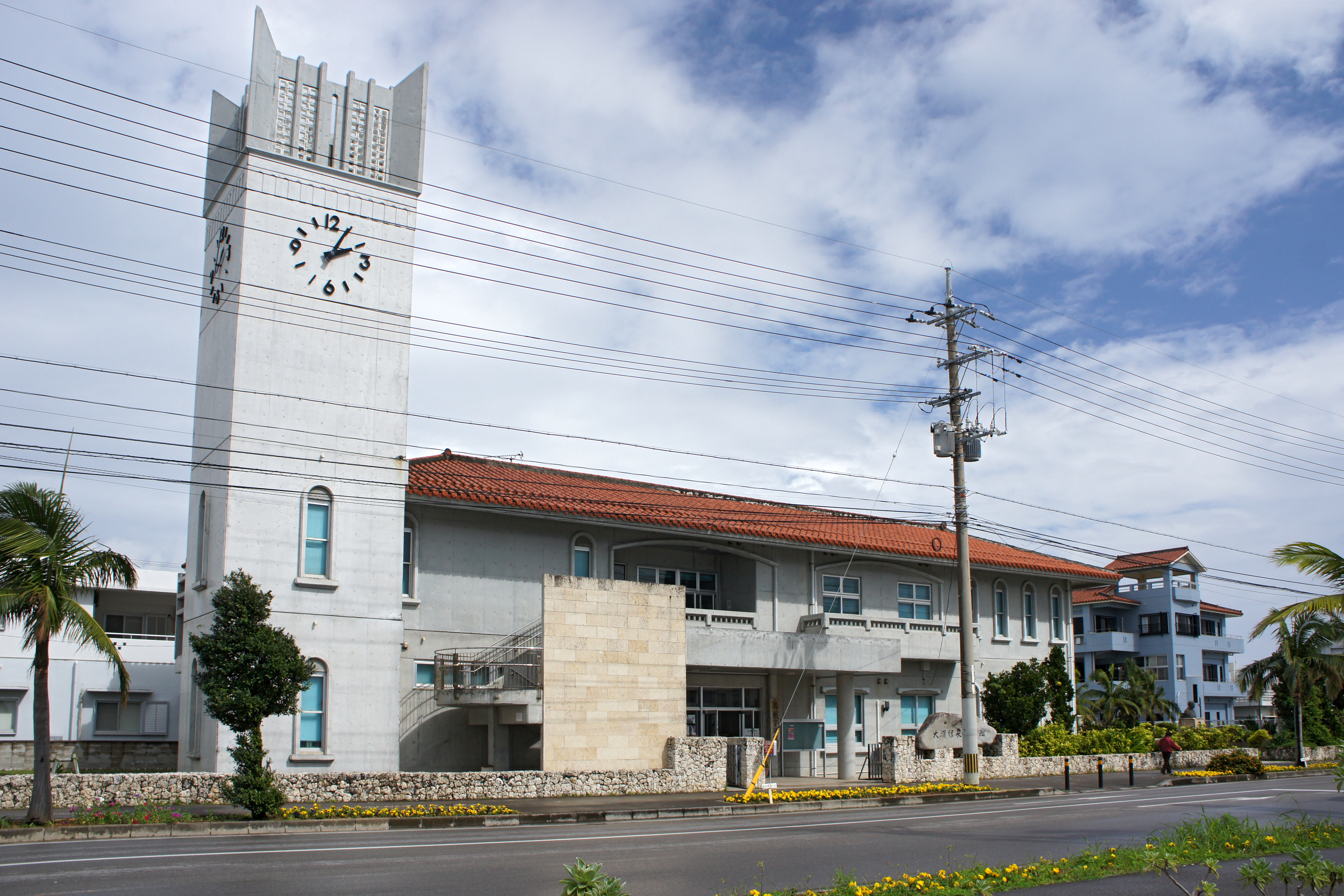 Ohama Nobumoto Memorial Hall in Ishigaki City, Okinawa Prefecture, Japan.